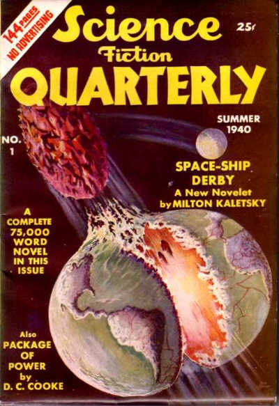 Cover of the Summer 1940 issue of Science Fiction Quarterly